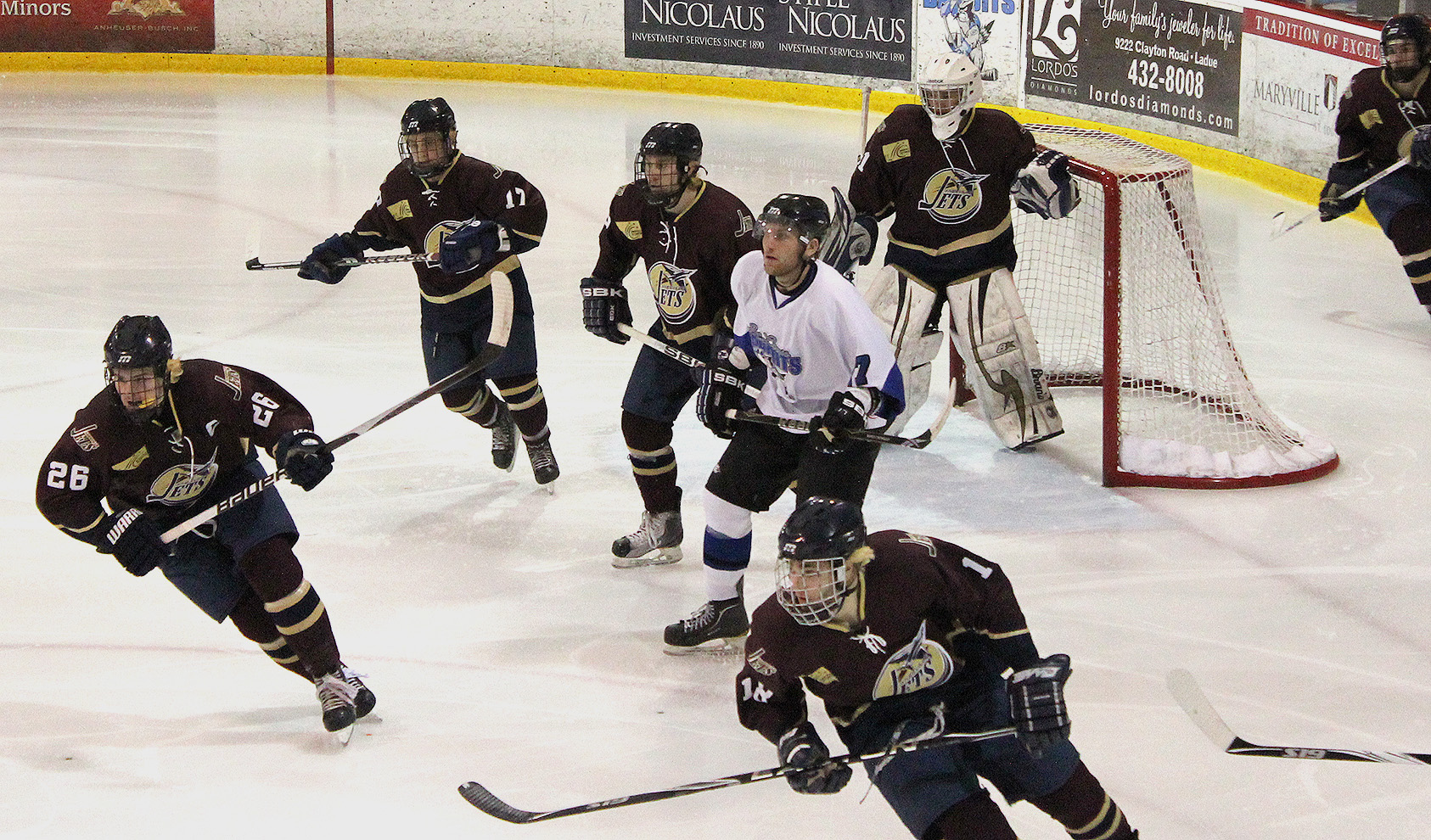 NAHL Jets in st.louis